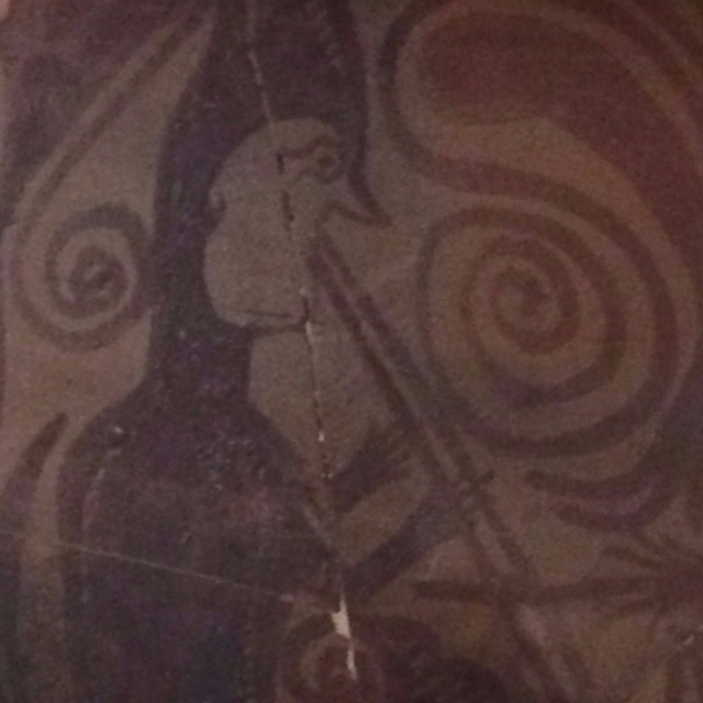 Músico que aparece en la decoración de una jarra de los restos arqueológicos hallados en el Tossal de San Miquel. Llíria.